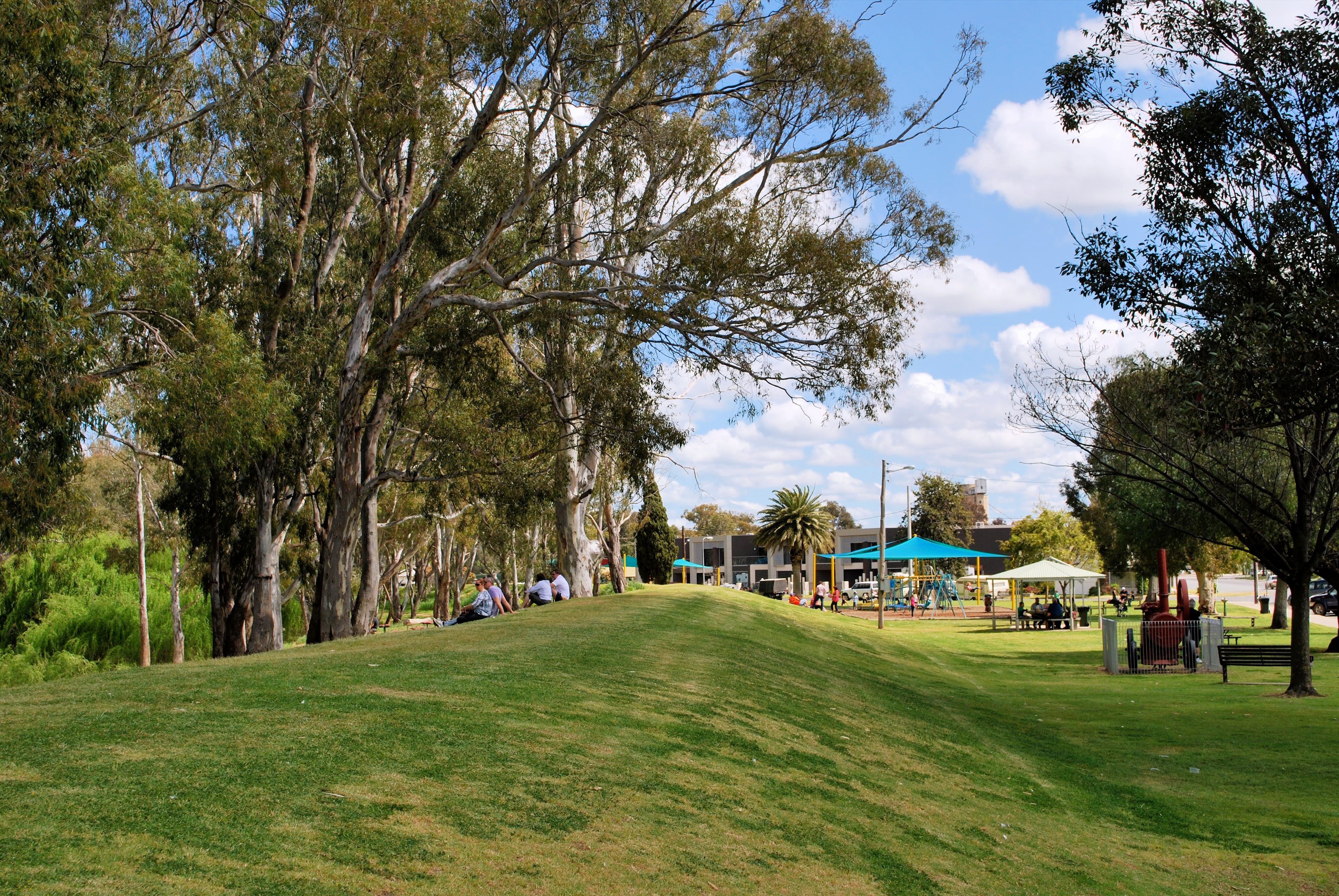 The levee protecting Tocumwal from the Murray River